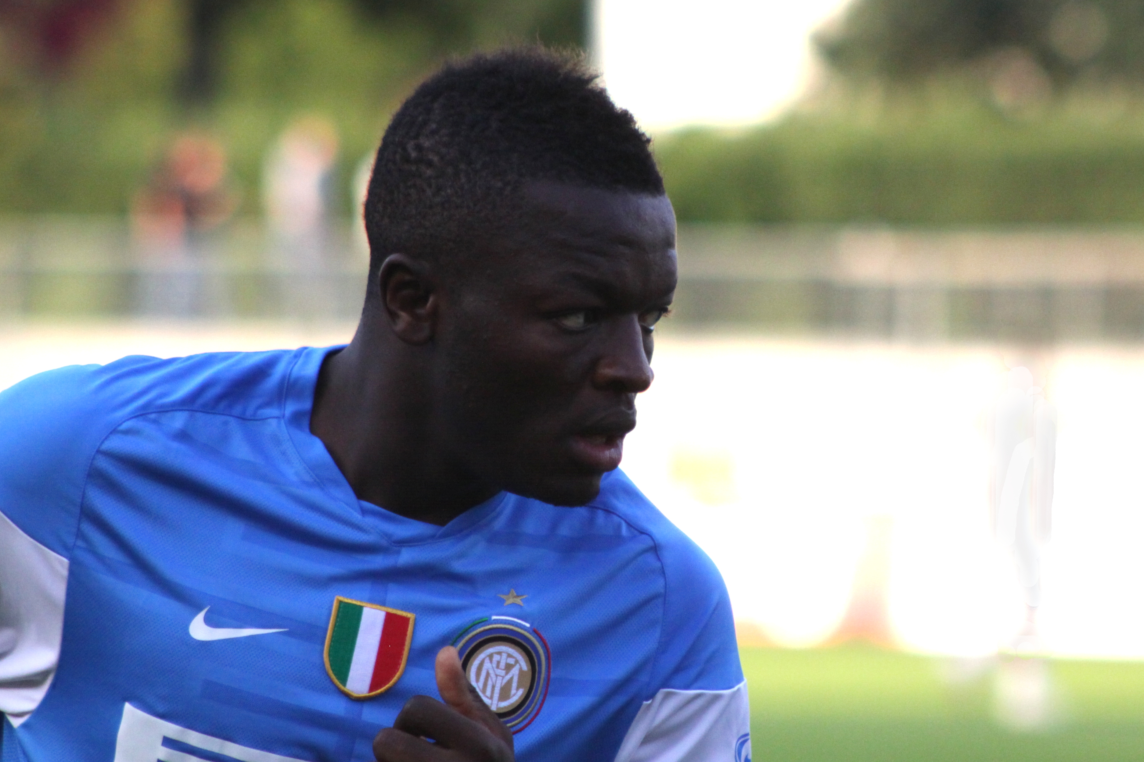 Sulley Muntari - F.C. Internazionale Milano.